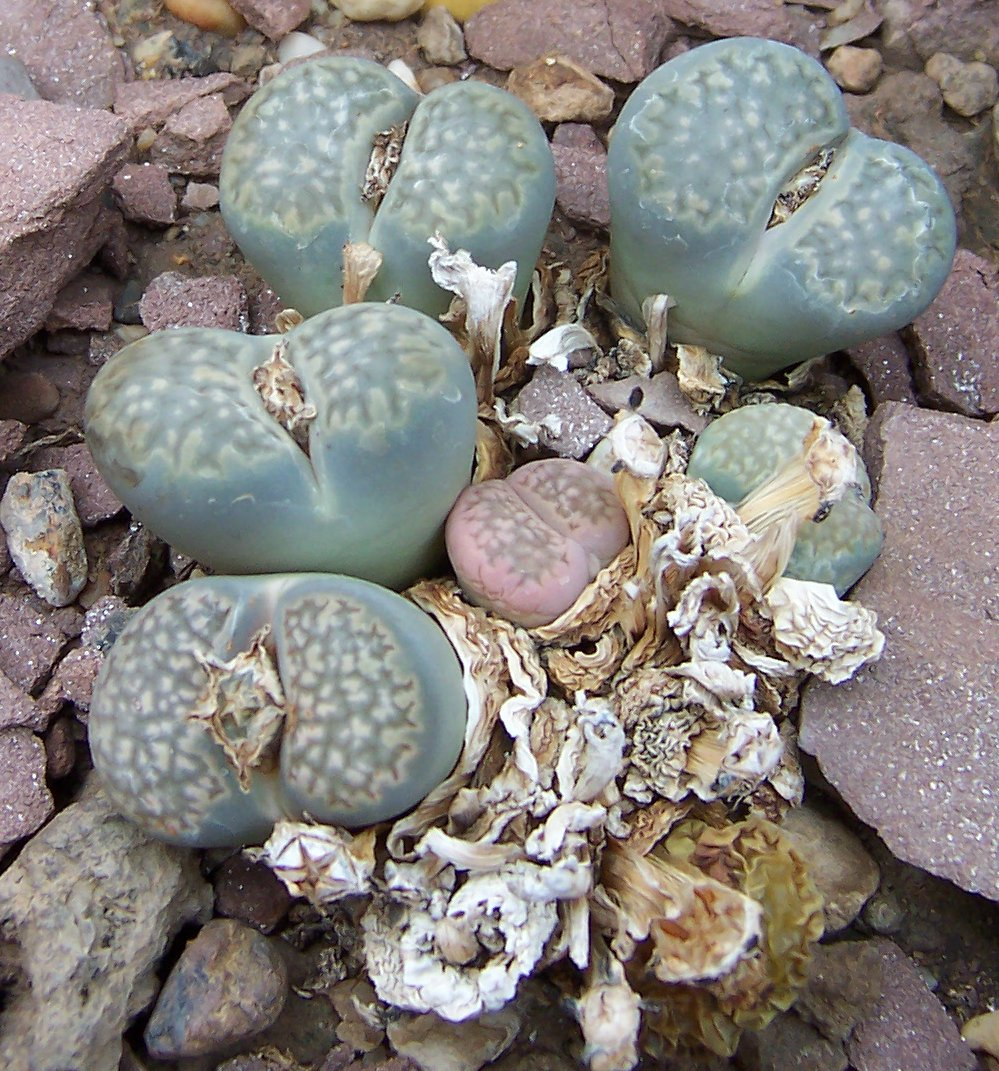 Lithops halli, Basel 927 strain